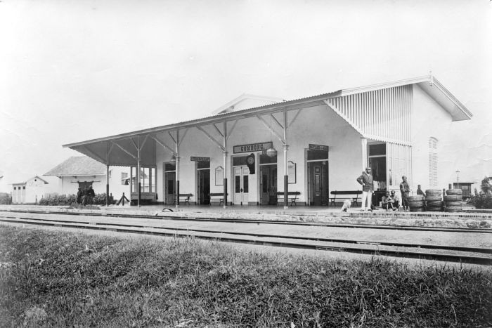 Railwaystation Gombong in Central-Java